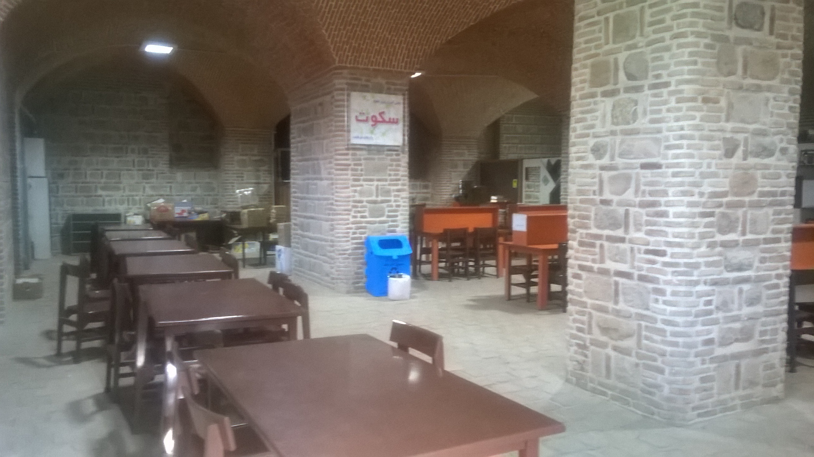 Library of Ferdosy High School